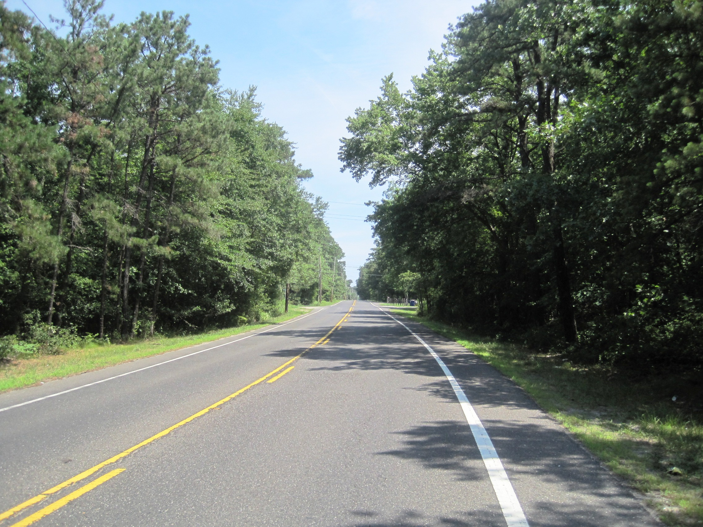 Photo of Browns Mills Junction, New Jersey, an unincorporated community within Pemberton Township. Photo taken looking northeast along County Route 645 at its former crossing with the Philadelphia and Long Branch Railway, later a part of the Pennsylvania Railroad.